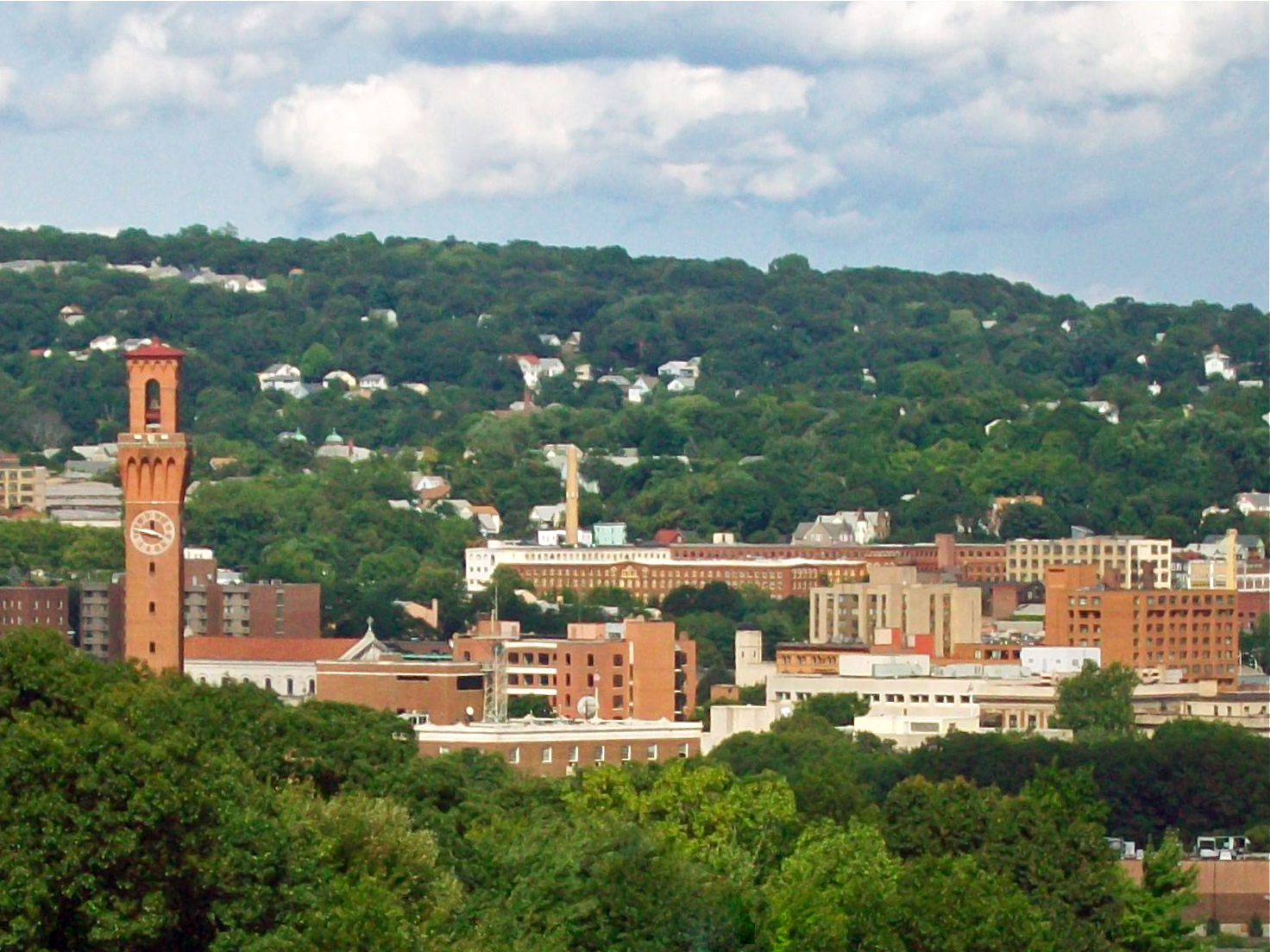 Waterbury, CT